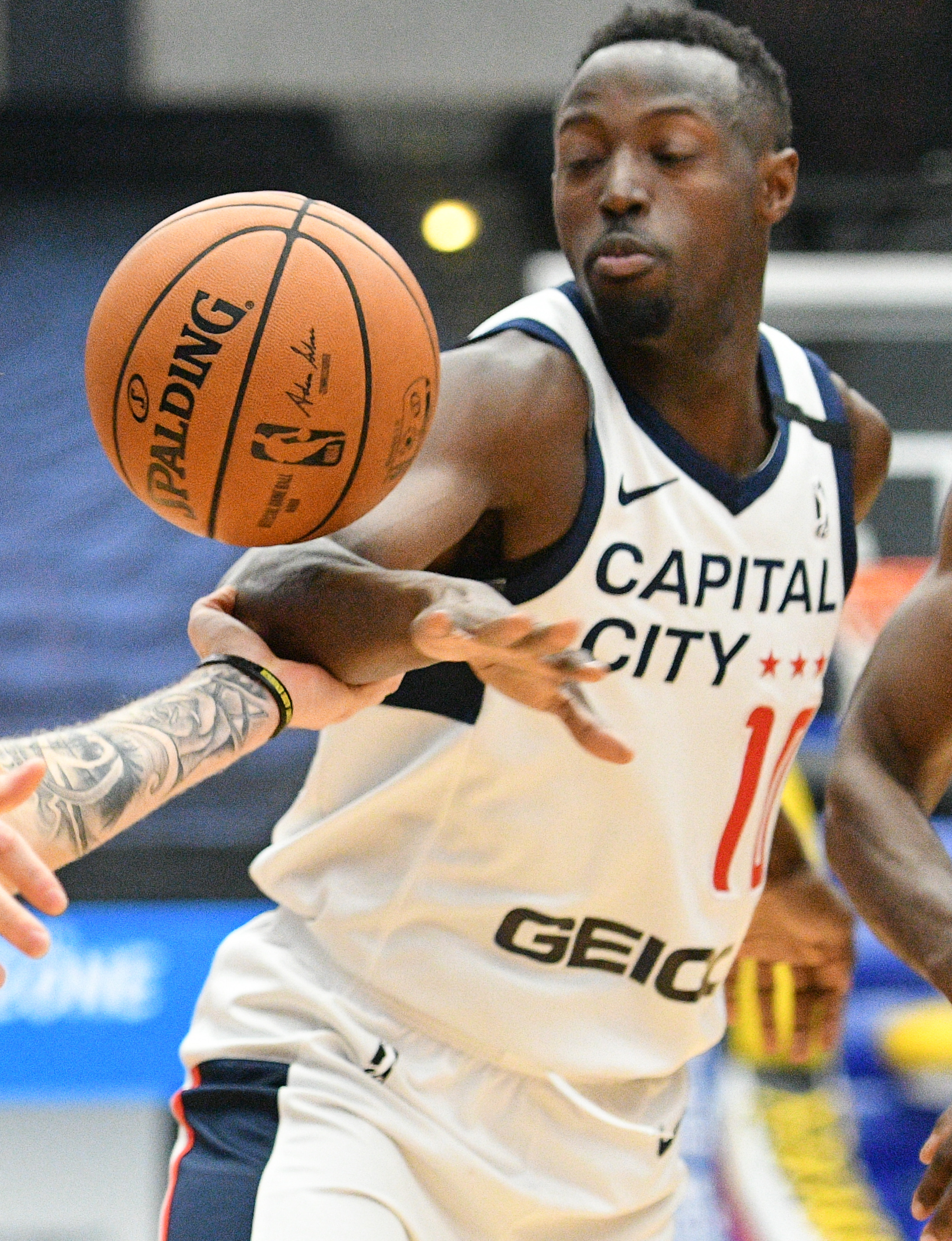 Lakeland Magic vs Caoital City Go-Go. RP Funding Center. Lakeland, Fla. Feb. 1, 2020. (Photo by Tom Hagerty.)